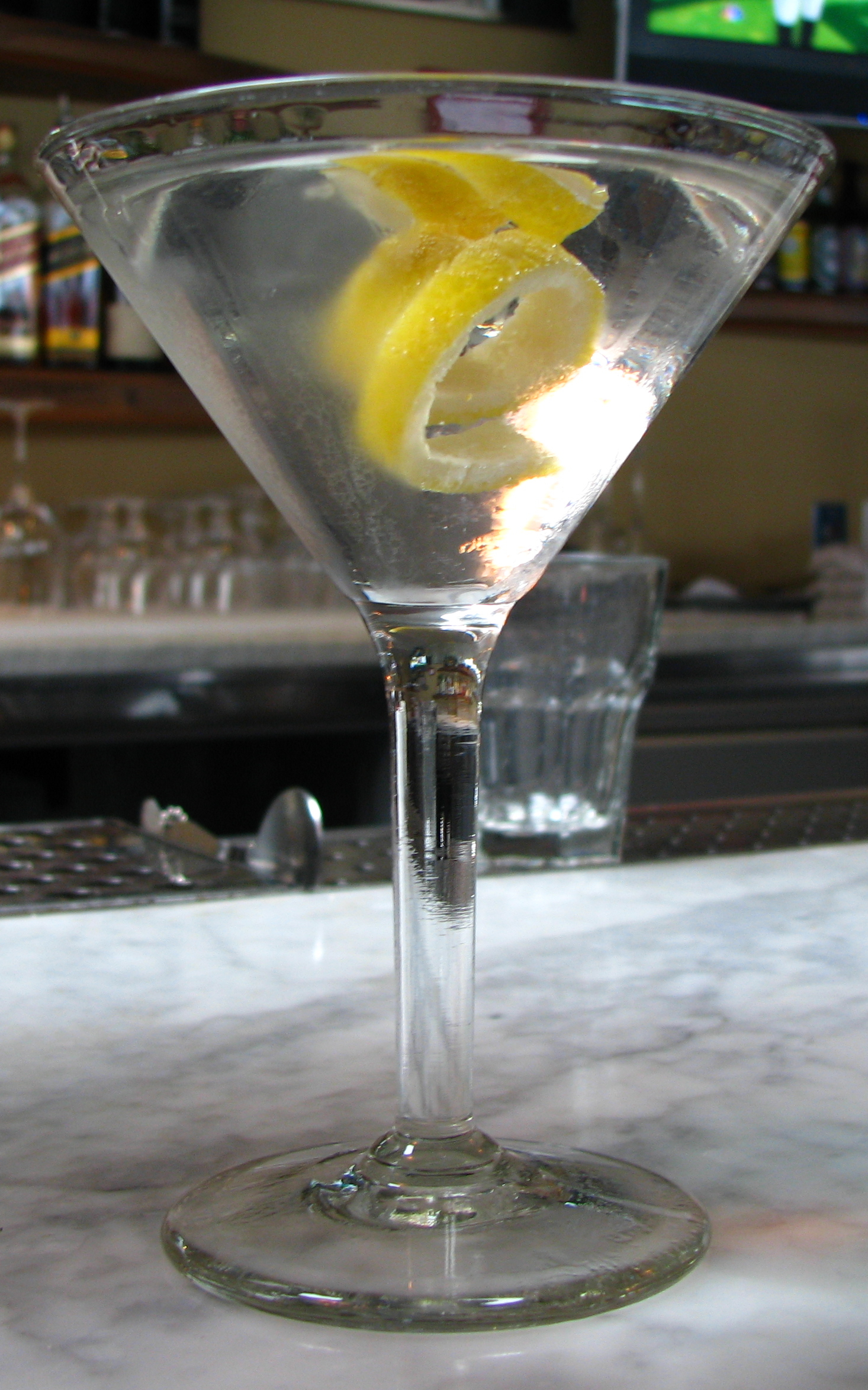 This is a photo of the "Vesper" cocktail. Photo was shot, by me, using a Canon S5 IS digital camera. It was made for me by Sam, a bartender at Sam's Chowder House in Half Moon Bay, CA.